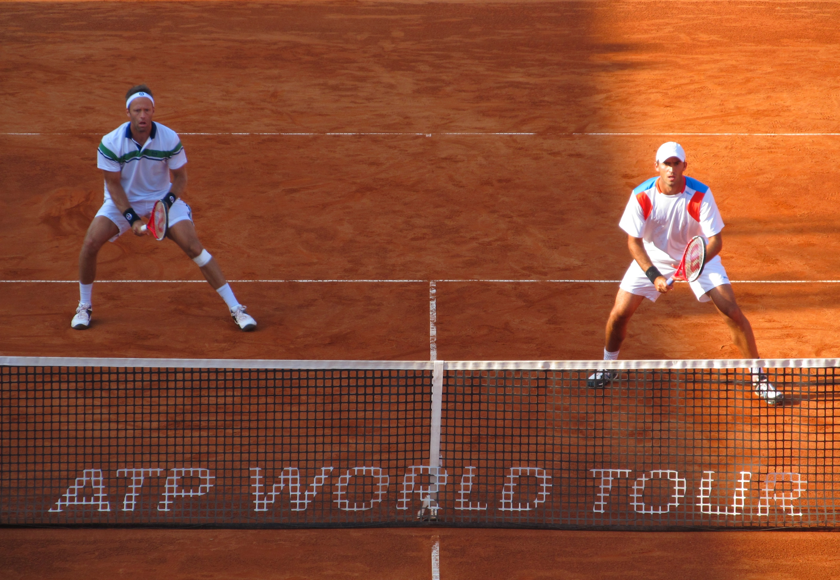 Robert Lindstedt and Horia Tecău playing in the semifinals at the 2012 BRD Năstase Țiriac Trophy